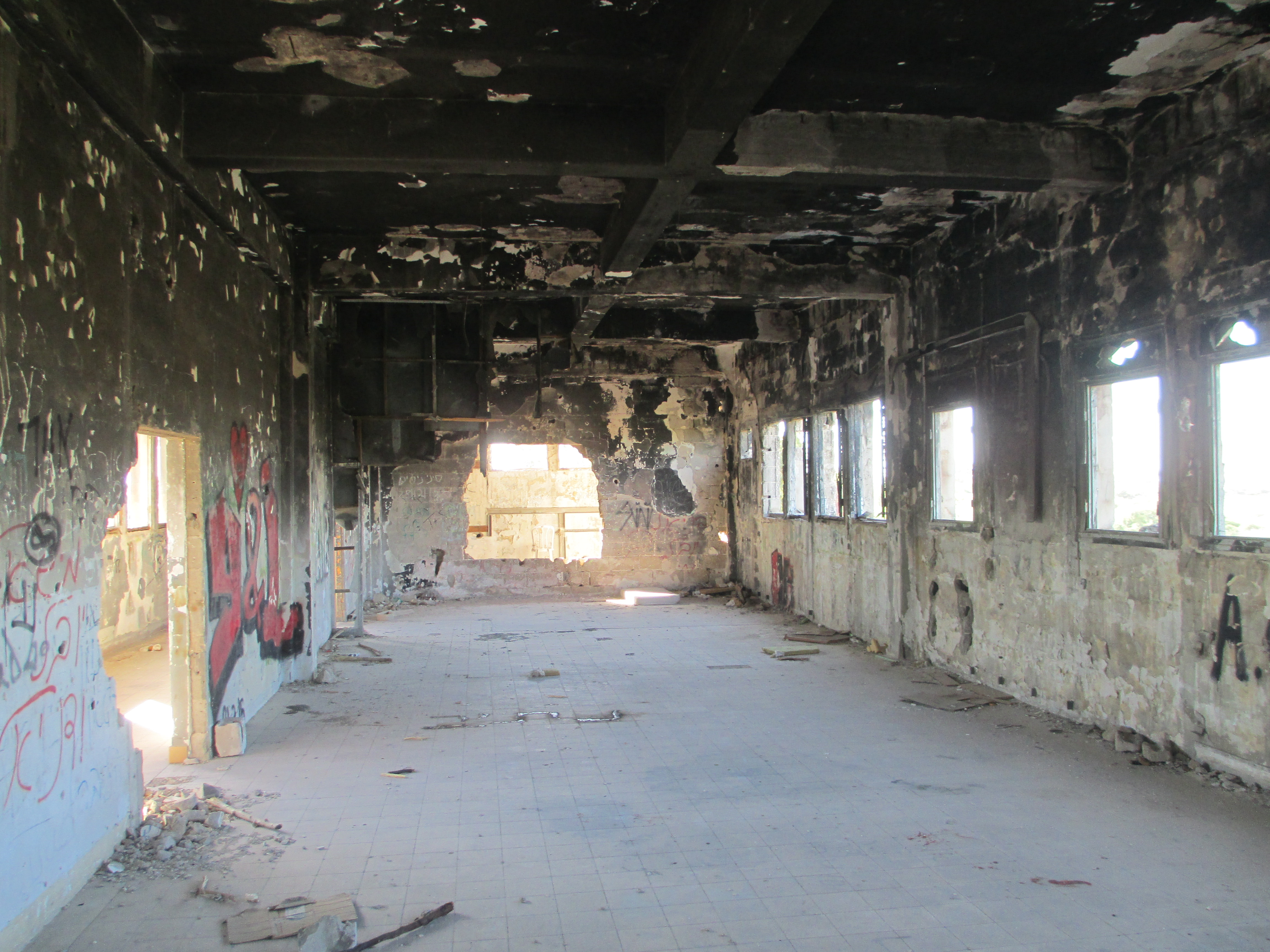 A hall in Hassan Salame headqurters in 1948